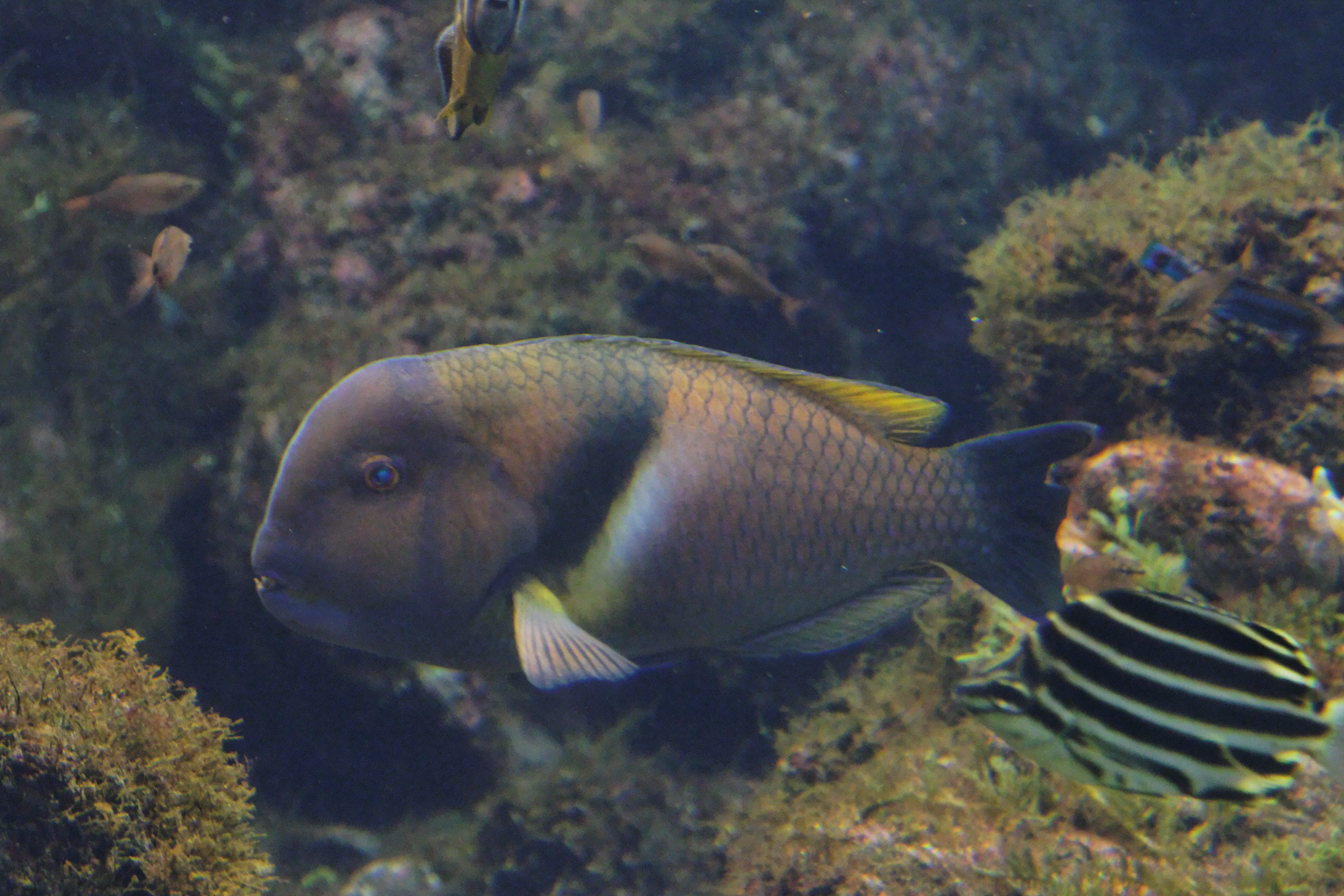 Choerodon azurio, Scarbreast turkfish